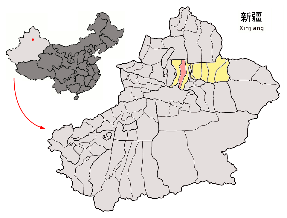 Location of Hutubi County (pink) and Changji Prefecture (yellow) within Xinjiang autonomous region of China Map drawn in september 2007 using various sources, mainly : Xinjiang Uygur autonomous region administrative regions GIS data: 1:1M, County level, 1990 Xinjiang Counties map from